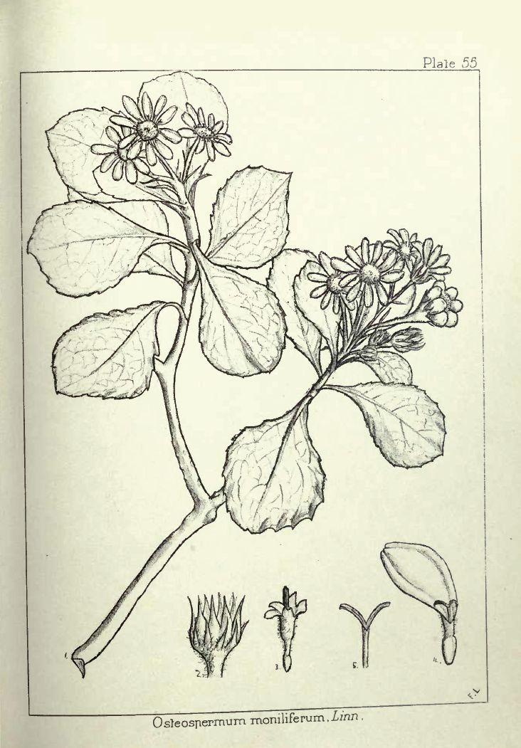 Illustration from "Natal Plants" - Osteospermum moniliferum L. is a synonym of Chrysanthemoides monilifera subsp. monilifera (L.) Norl. Plate description from page 46 volume 1 - 1Twig with leaves and flowers 2Involucre 3Disk floret 4Ray floret 5Style and stigmas